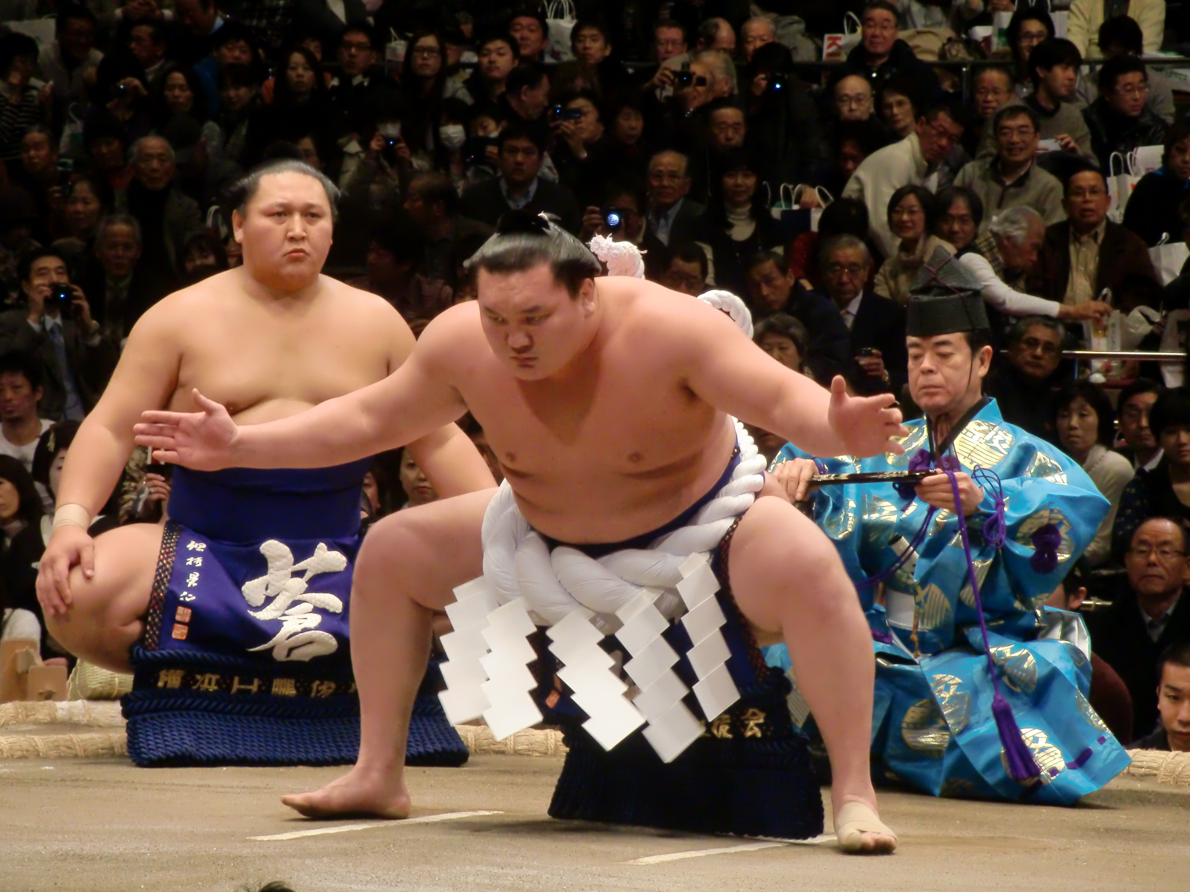 taken at 2012 Jan tournament